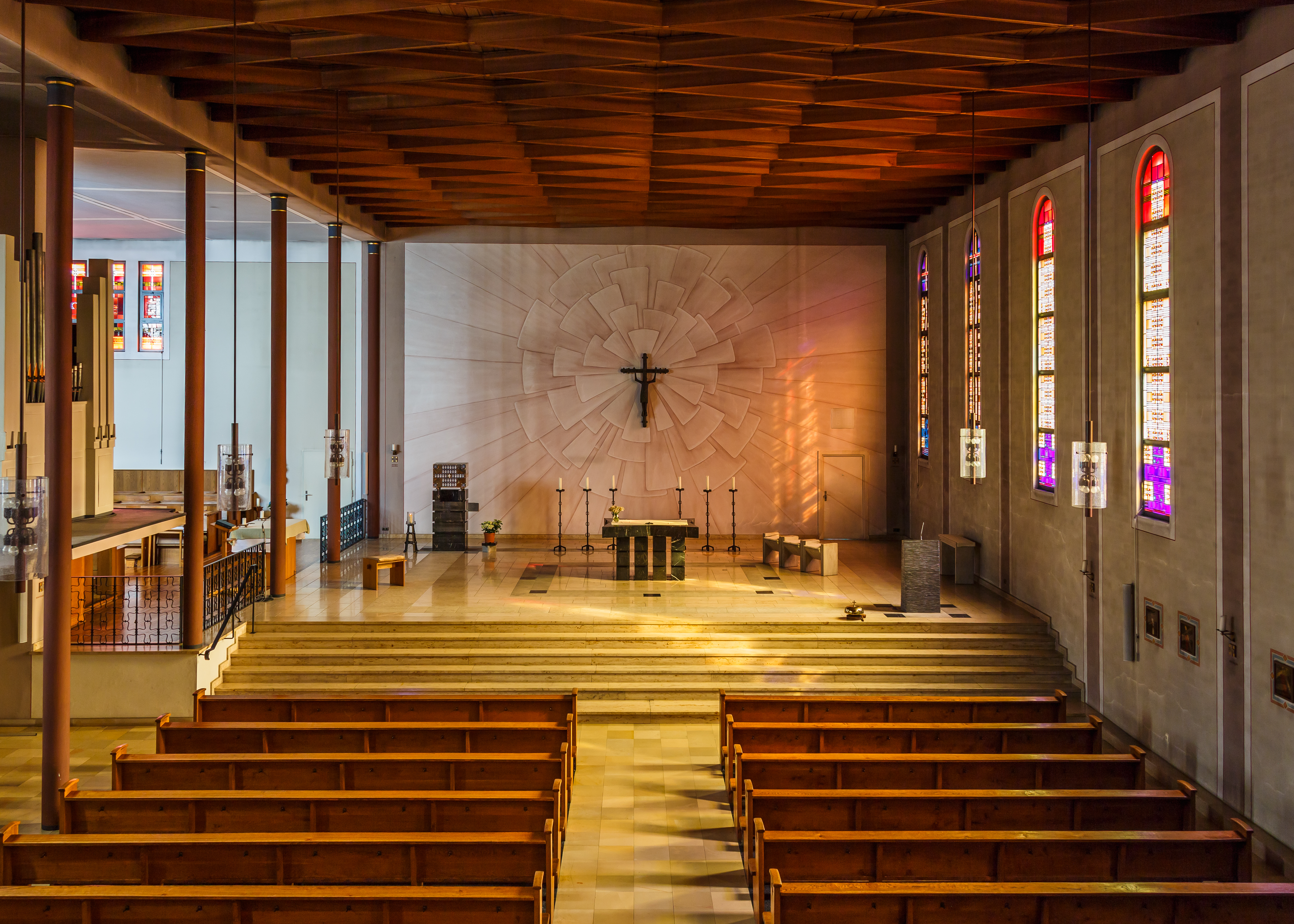 Essen, Germany: Interior of the B.M.V. Church.